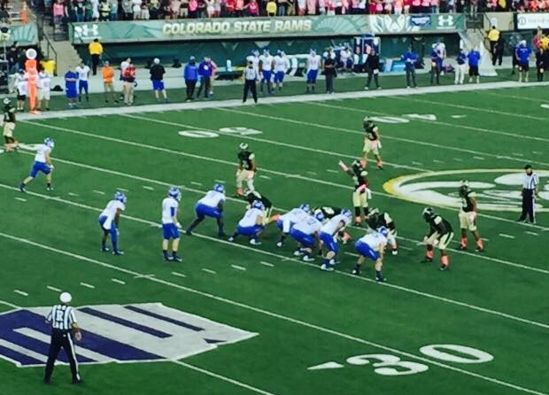 Boise State on offense in the first half during their game vs Colorado State at Hughes Stadium in Fort Collins, Colorado on October 10, 2015.